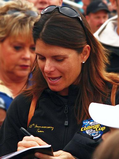 Mia Hamm signing autographs in Cary, NC